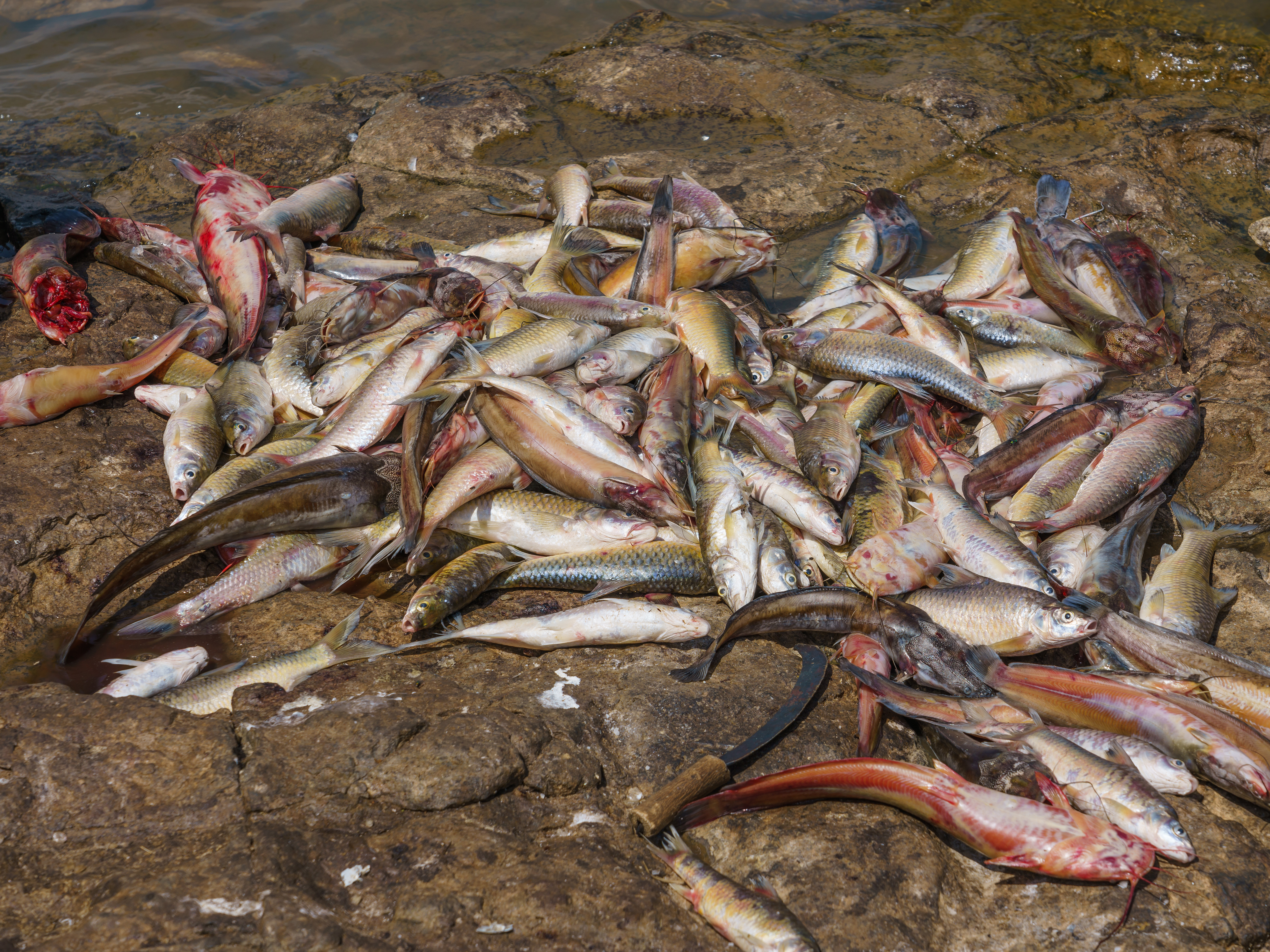 Lake Tana at Gorgora near Gondar, Ethiopia